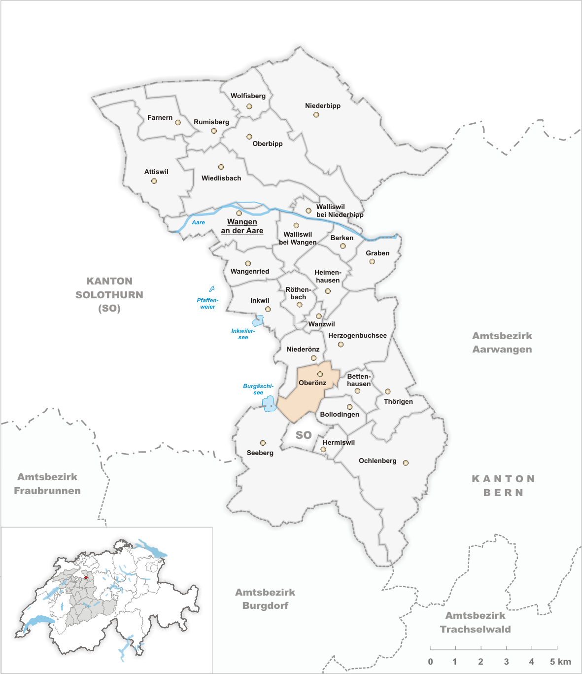 Municipality Oberönz